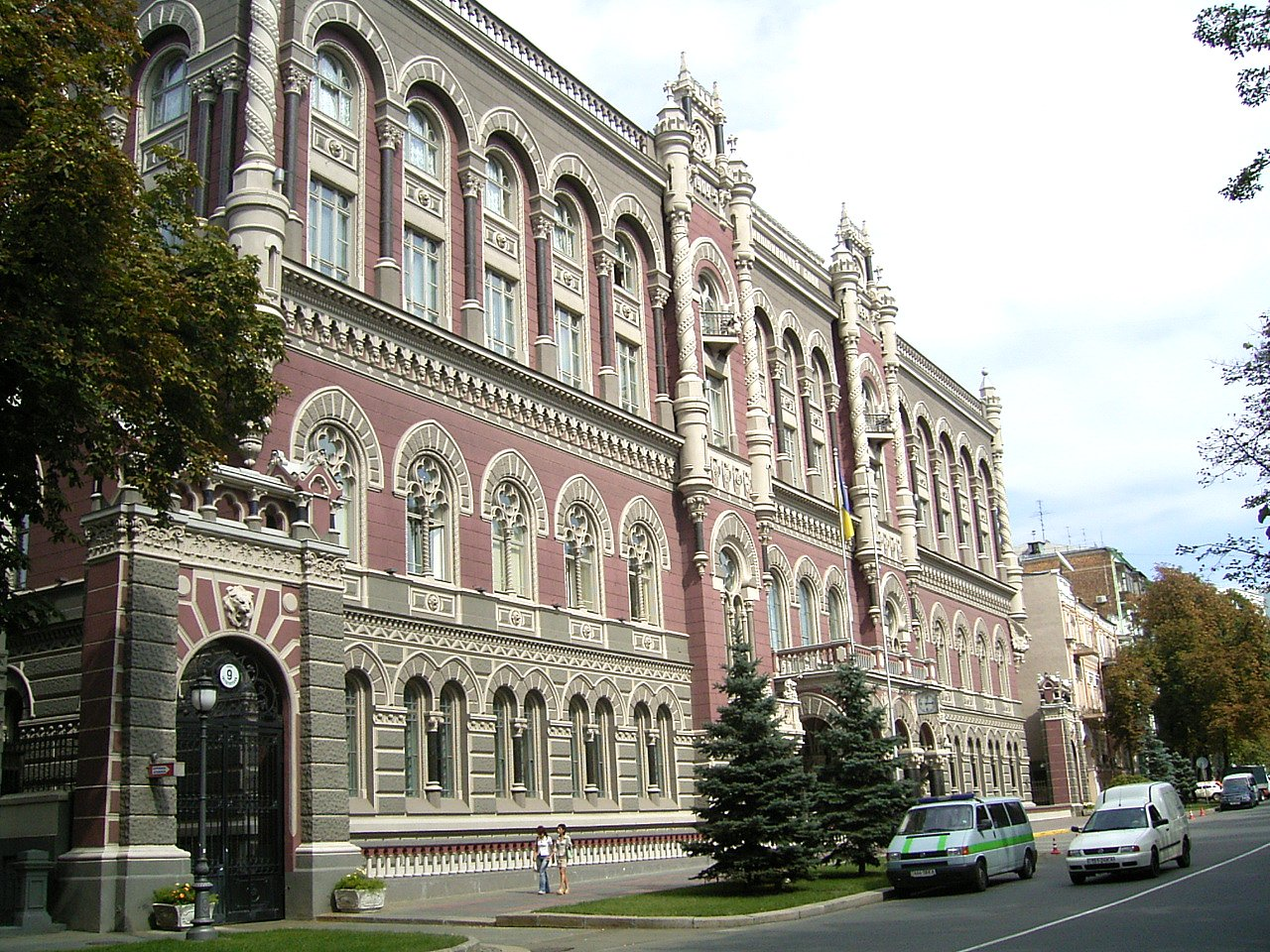 Building of the National Bank of Ukraine